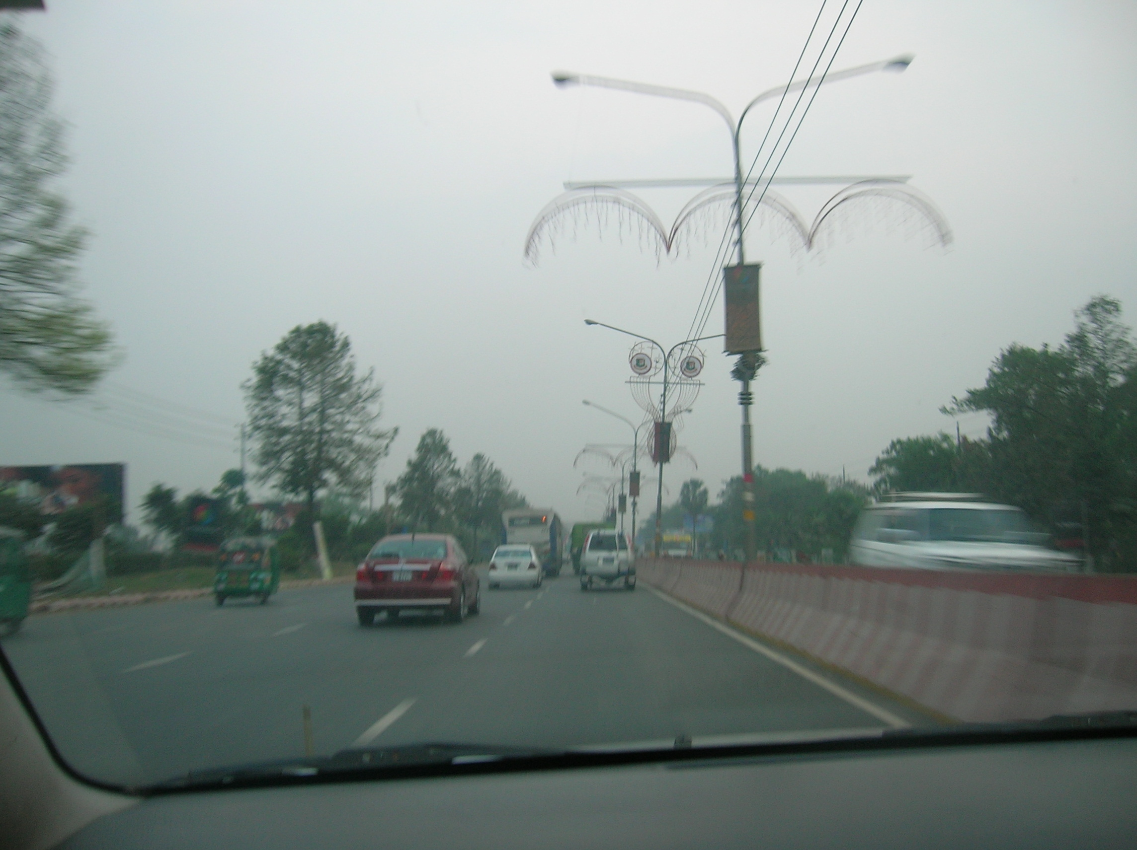 This is an image of the Airport Road, Dhaka, during the 2011 Cricket World Cup (March). Near Army Golf Club.